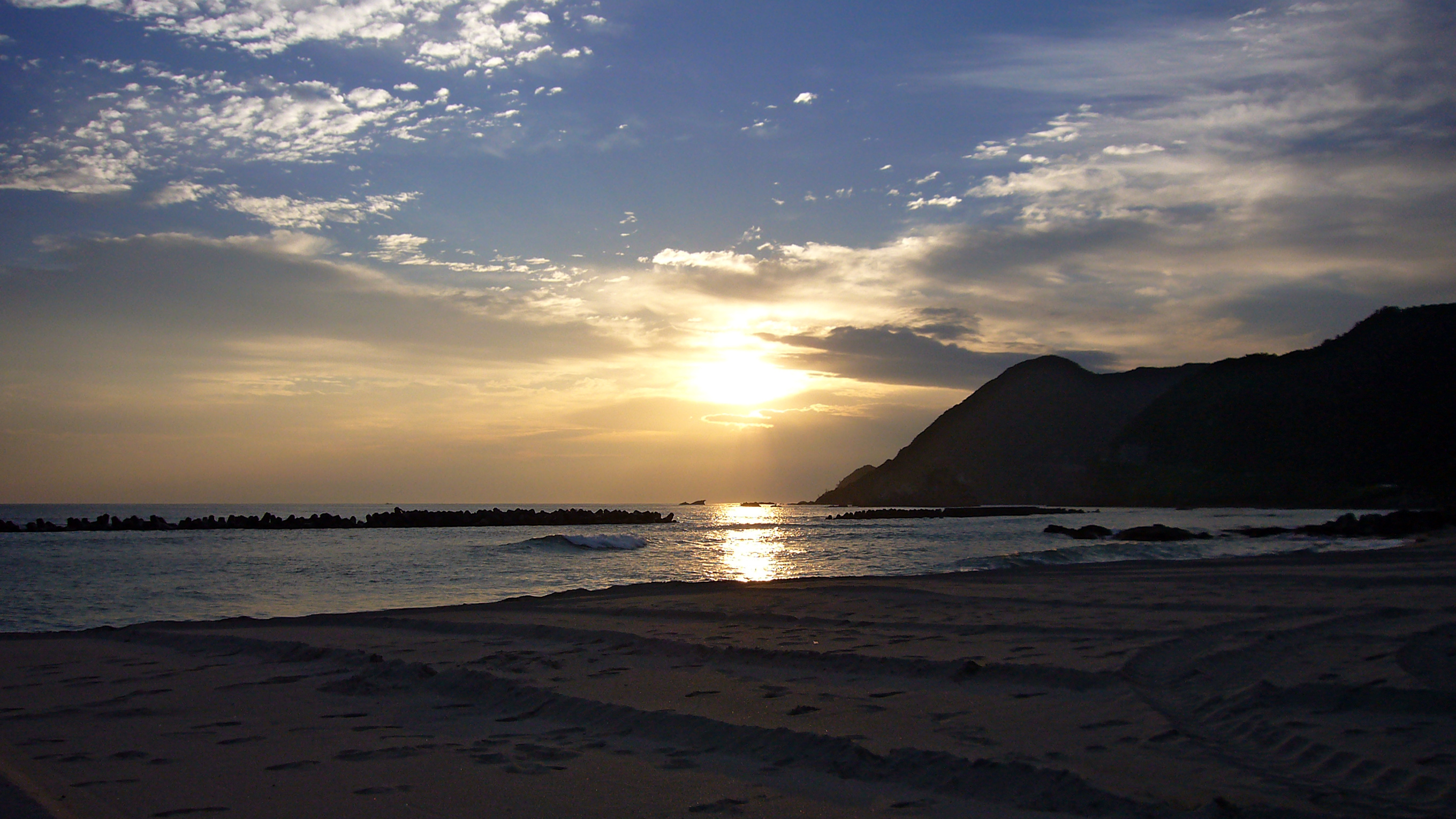 Takeno Beach in Toyooka, Hyogo prefecture, Japan